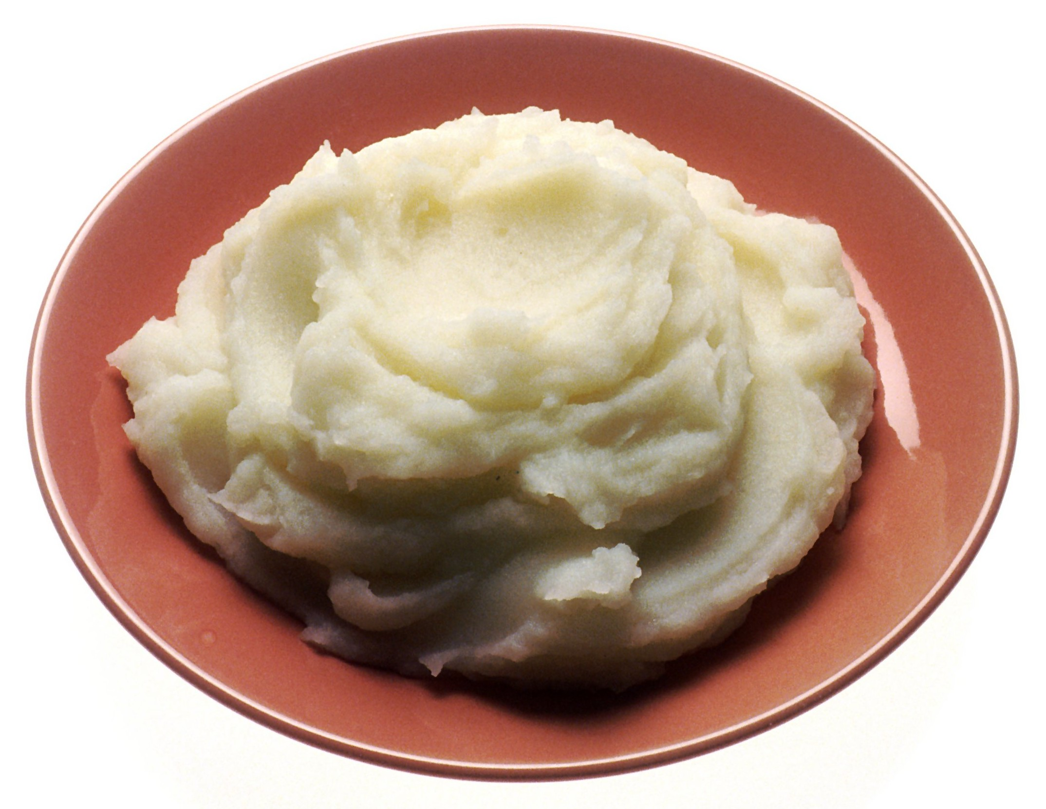 A small plate with a serving of mashed potatoes.